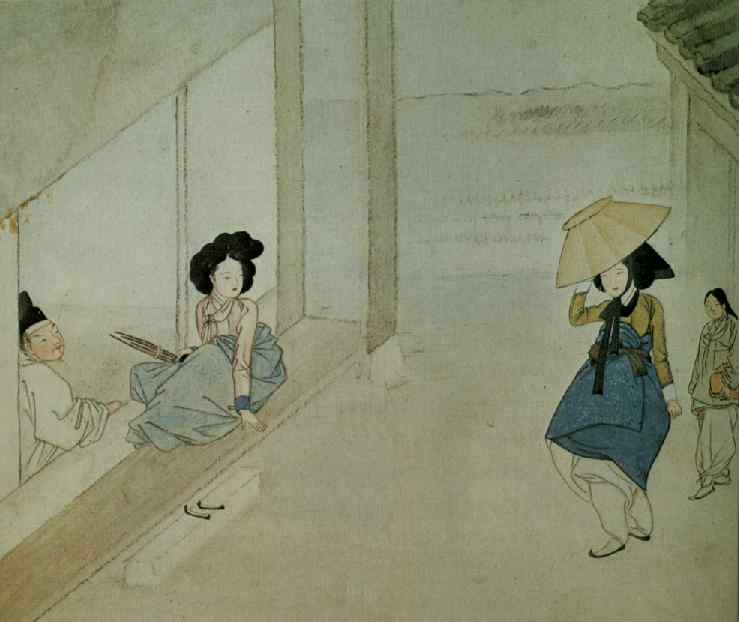 “Whiling away the hours at a cheongru” (translit. title:Cheongru soil) from Hyewon pungsokdo held by Gansong Art Museum in Seoul, South Korea